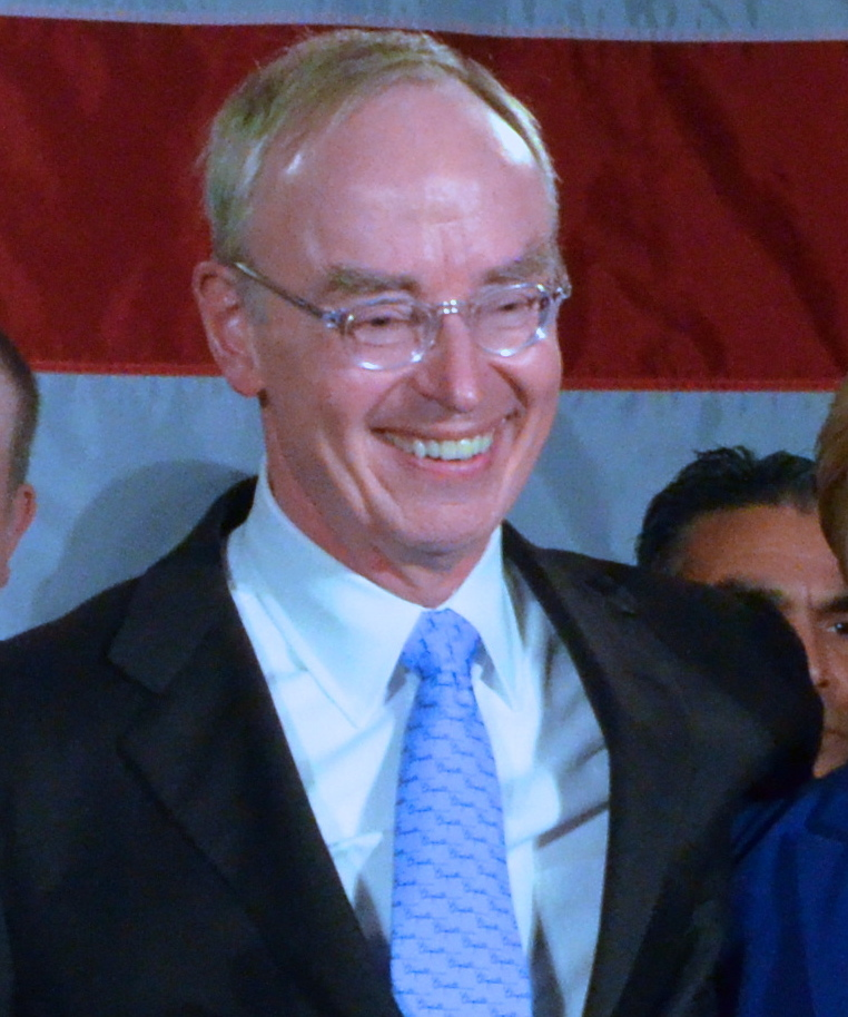 Election Night